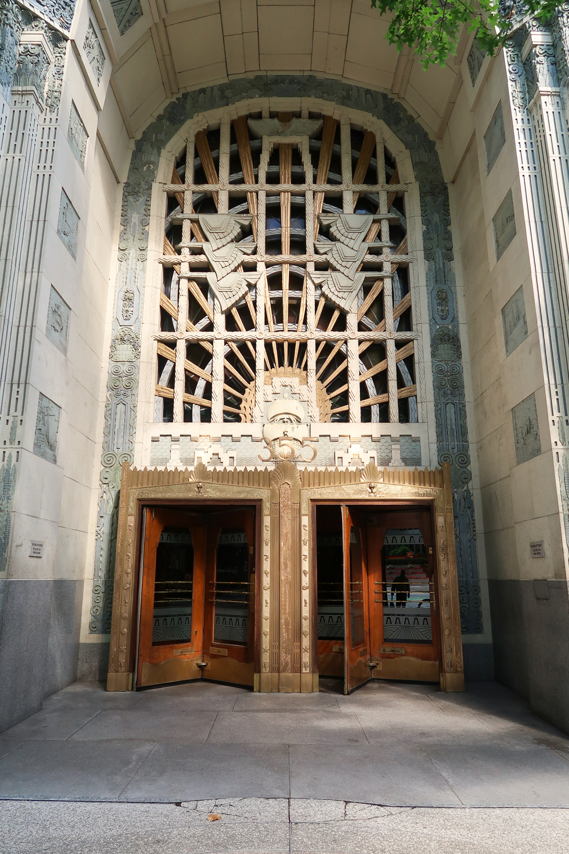 Marine Building Entrance